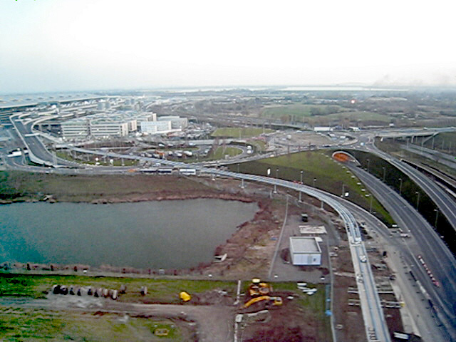 ULTra PRT at Heathrow Airport